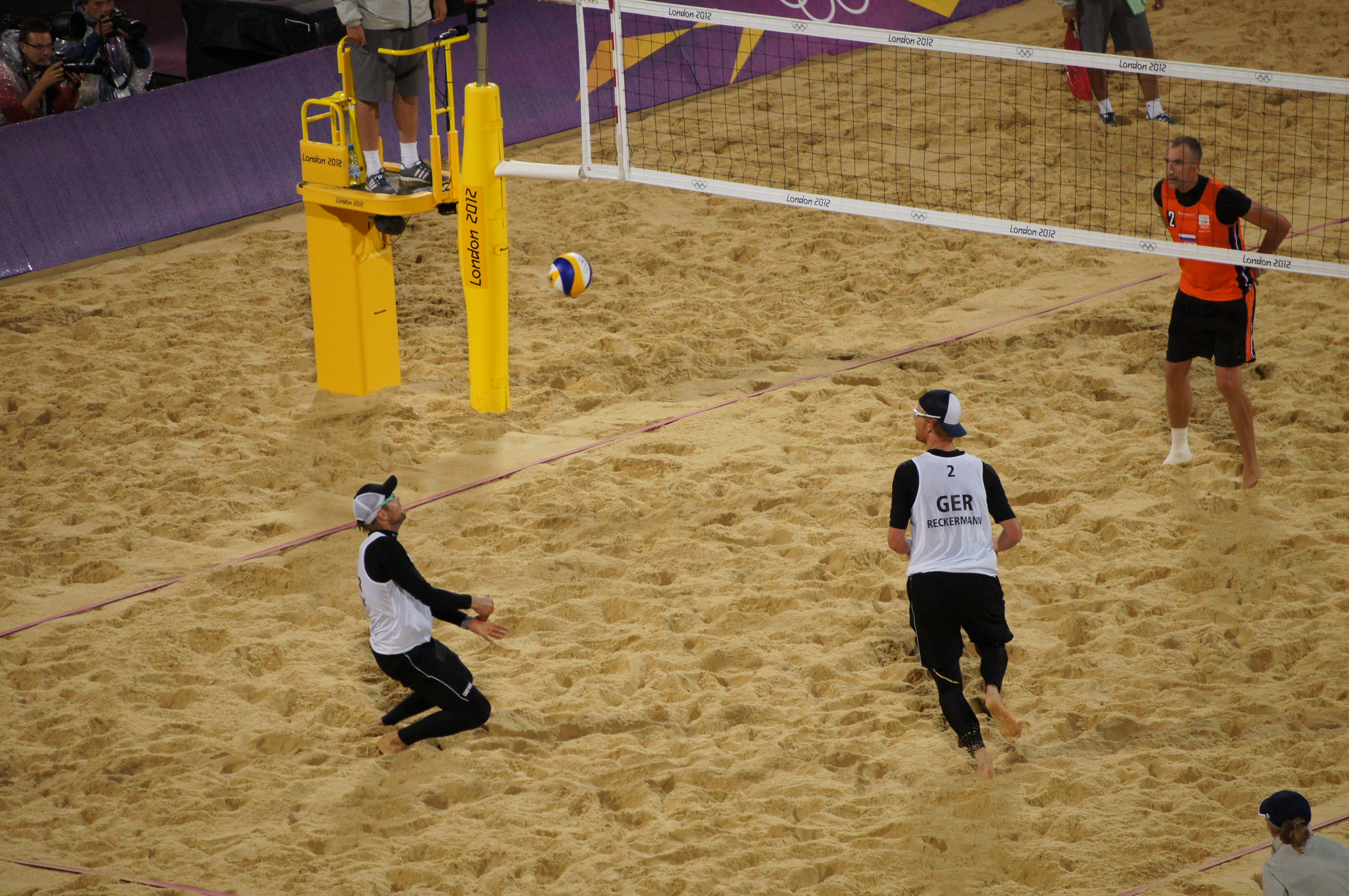 London 2012 Beach Volleyball Germany v Netherlands